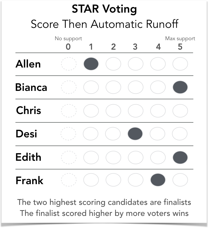 This is a sample STAR Voting ballot. The ballot itself is identical to a Score Voting ballot, with scores ranging from 0 to 5. Unlike Score Voting, the winner in SRV is computed using both the summed cardinal utilities of the candidates as well as the implicit preference order between the top two highest scoring candidates. Of the two highest-scoring candidates overall, the winner is the one given a higher score by more voters.